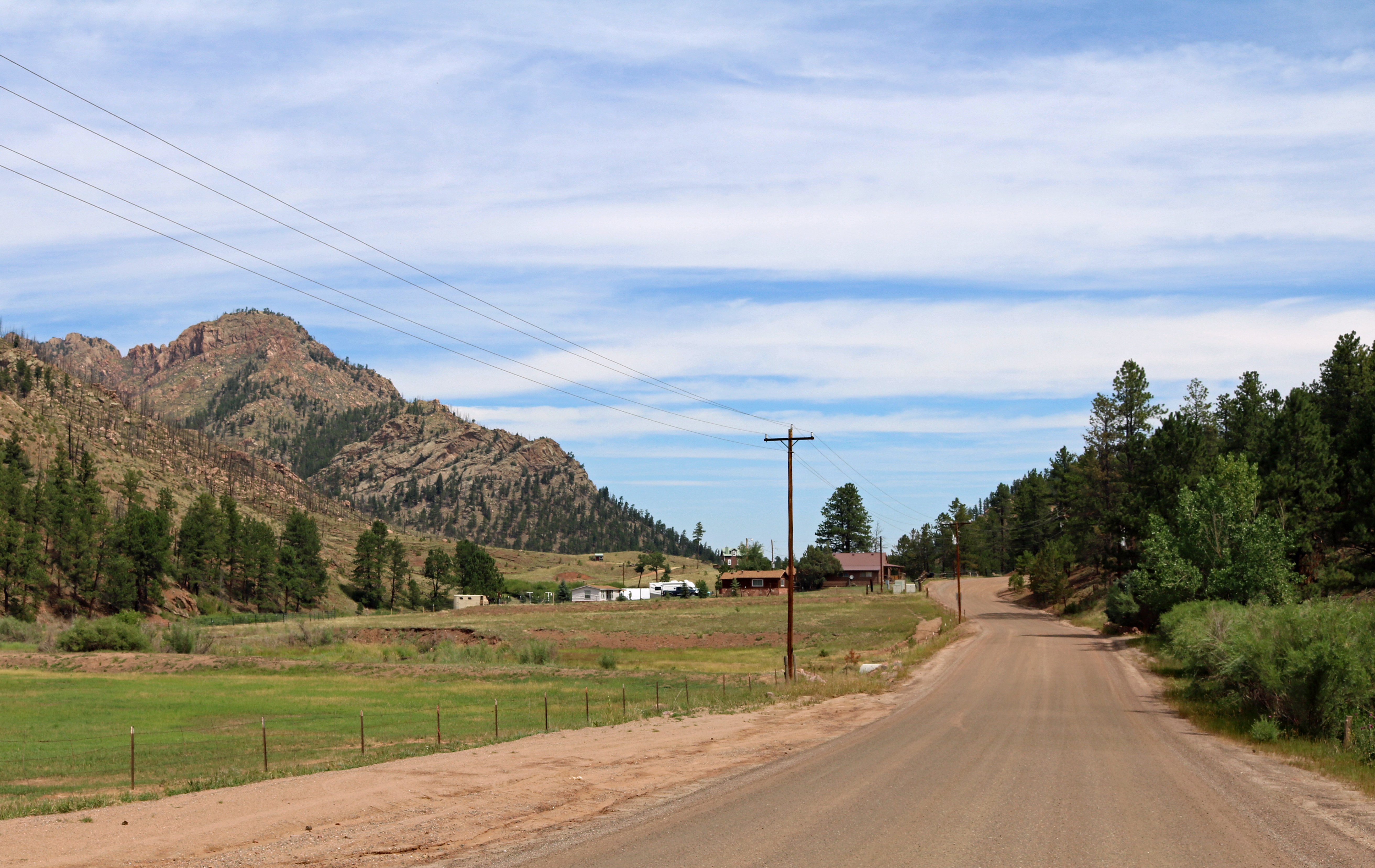 The community of Westcreek in Douglas County, Colorado. The view is looking north along Westcreek Road.